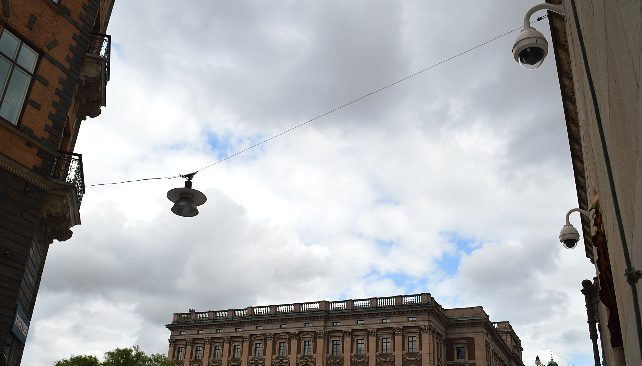 Surveillance camera mounted on the walls of Rosenbad, the swedish's govenment building, which houses the prime minister's office. One of the parlament's (Riksdagen) building can be seen in the background.